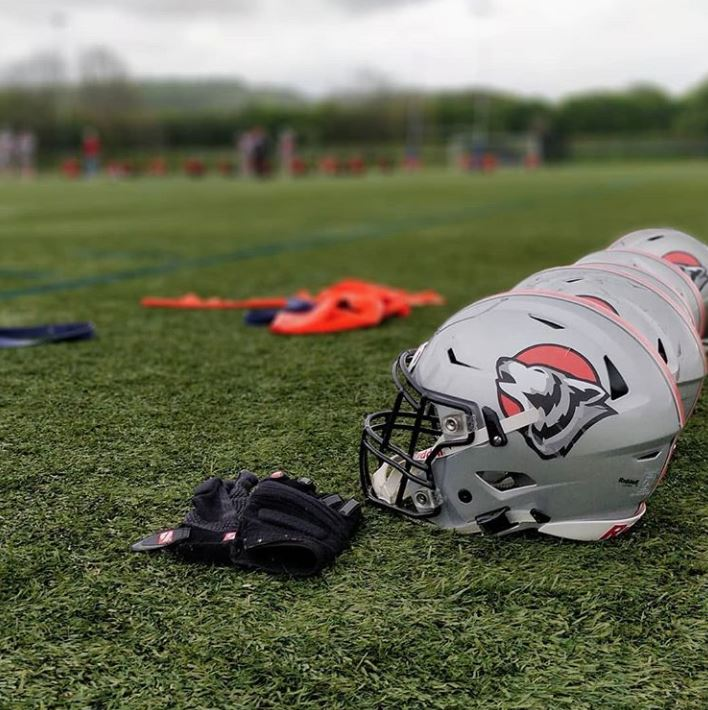 Edinburgh Wolves Helmets on the sideline